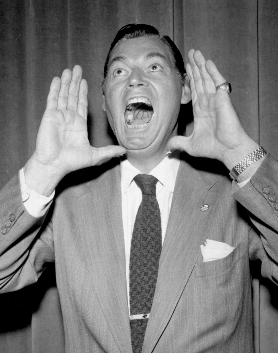 Photo of Johnny Weissmuller doing his Tarzan yell for the camera.